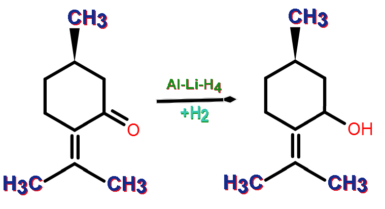 Pulegol synthesis from pulegone